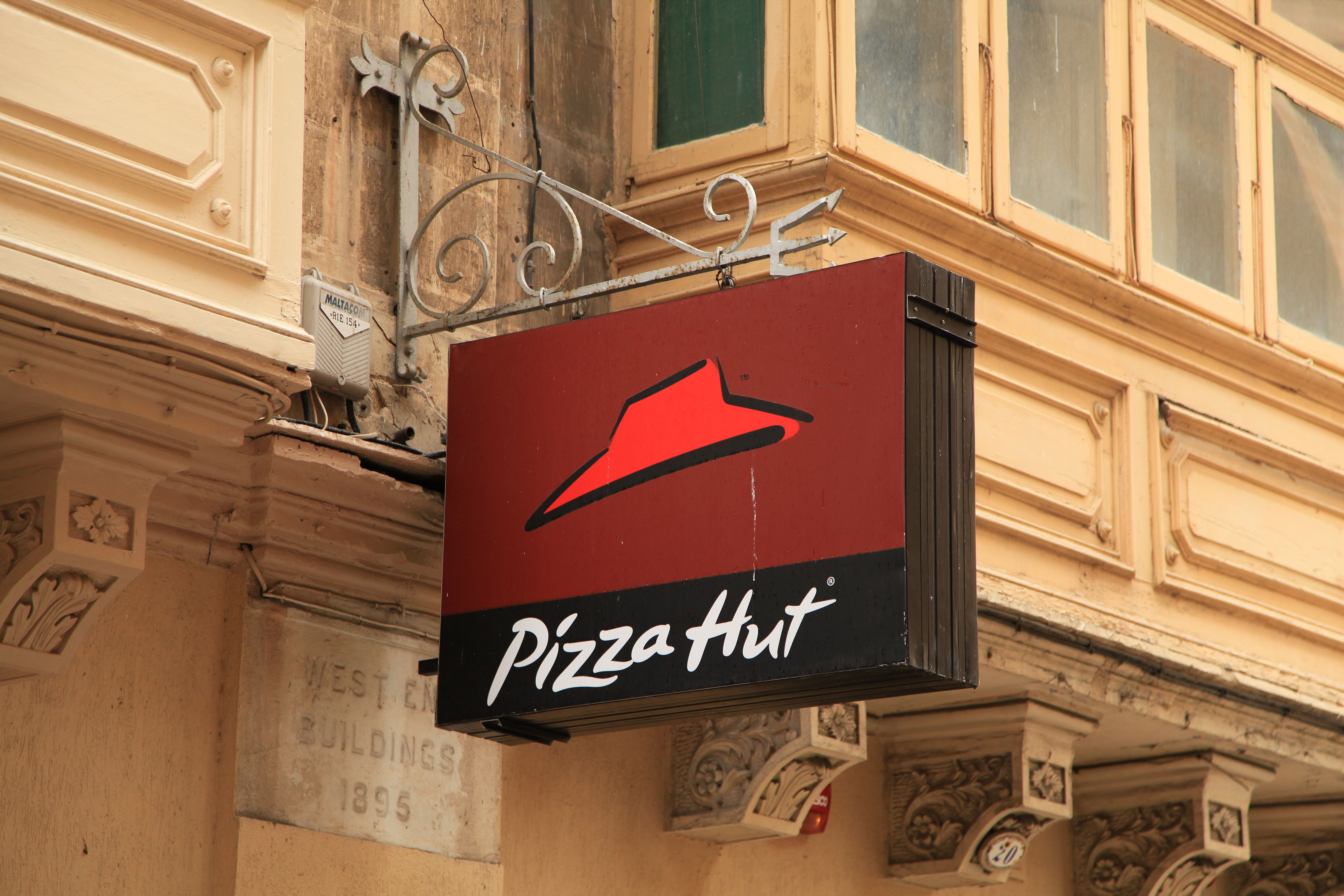 Triq Nofs-in-Nhar in Valletta, Malta